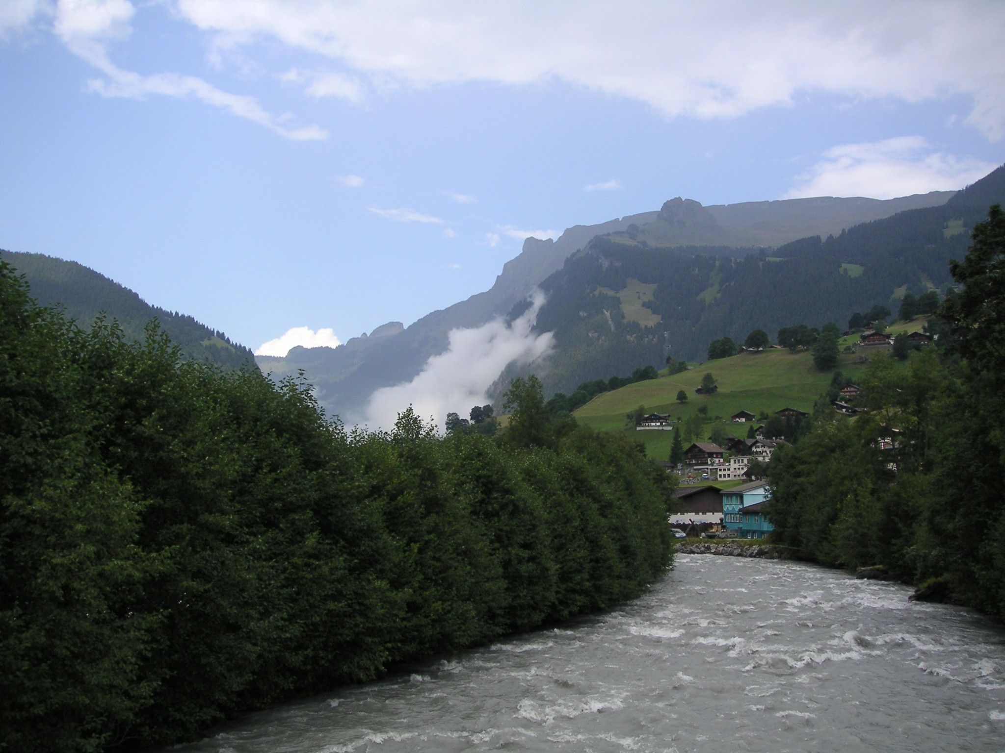 The Black Lütschine (Schwarze Lütschine) at Grindelwald-Grund, Switzerland